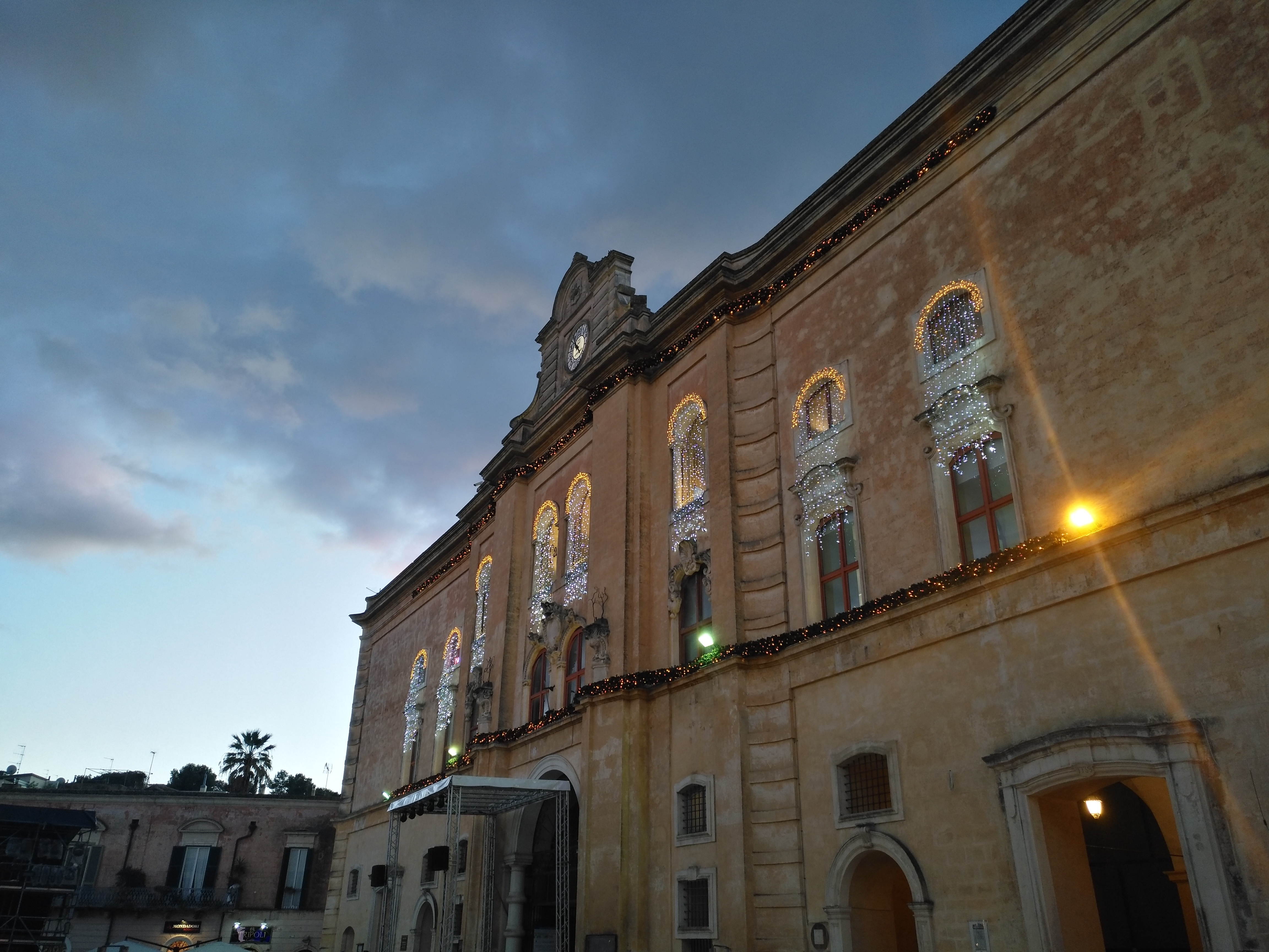 Main facade of the Palazzo dell'Annunziata (18th century), Matera.